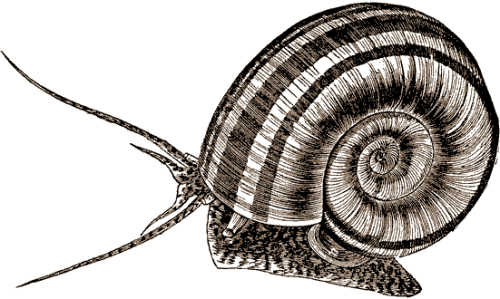 Marisa cornuarietis snail.